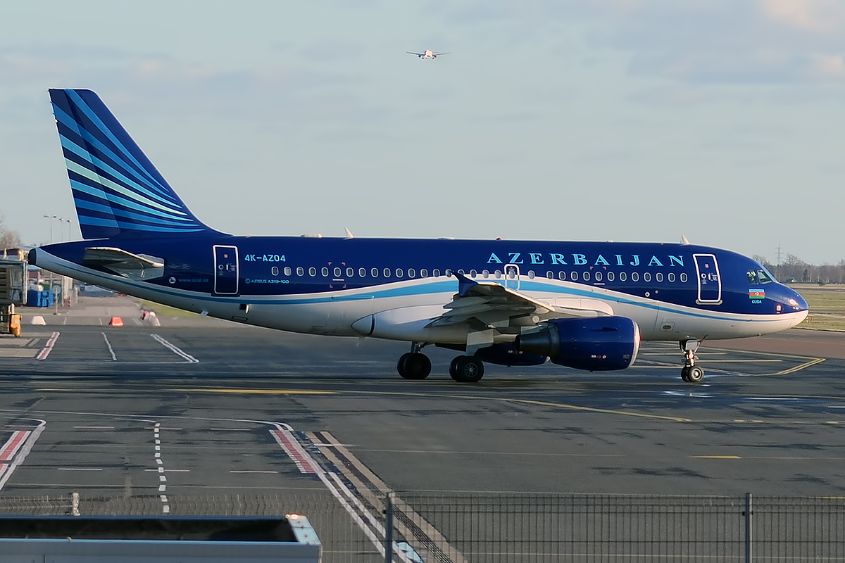 Azerbaijan Airlines, 4K-AZ04, Airbus A319-111